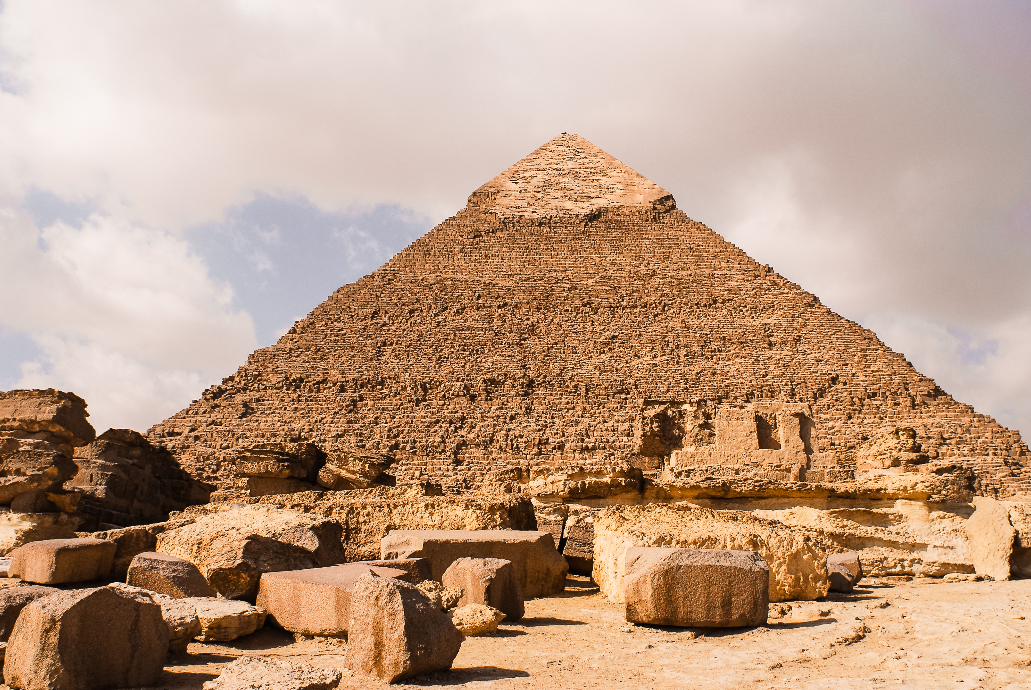 Pyramid of Khafre (Pyramid of Chefren). Giza, Cairo, Egypt, North Africa.